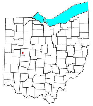 Locator map of the unincorporated community of Logansville in Logan County, Ohio, United States.